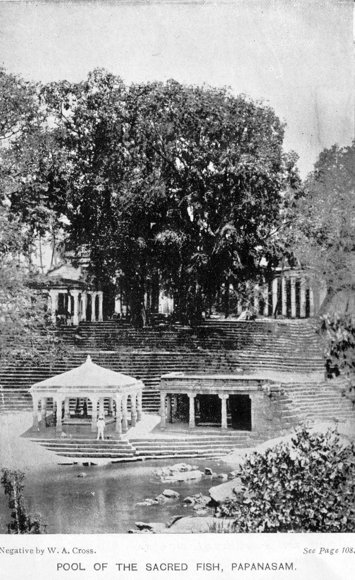 Papanasam Pool of the Sacred Fish (in Papanasam, Tirunelveli, Tamil Nadu, India)